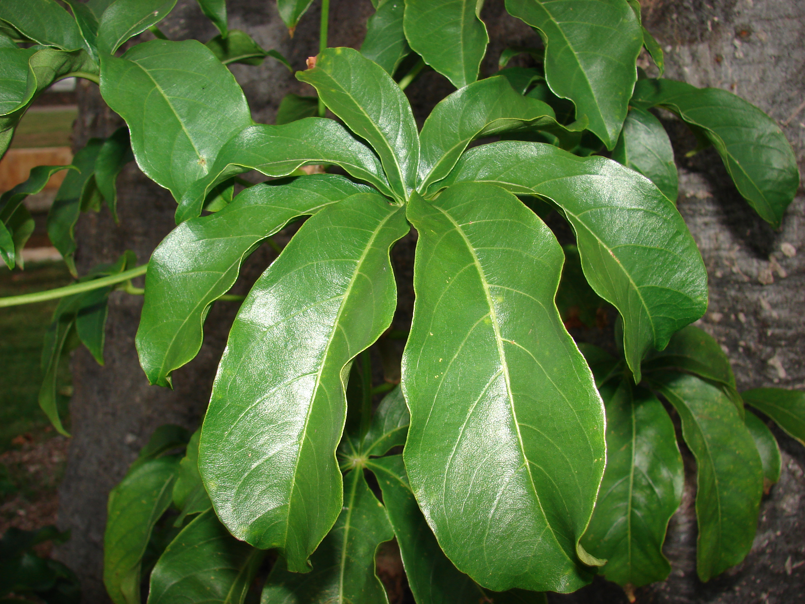 Adansonia digitata (leaves). Location: Oahu, Ala Moana Beach Park